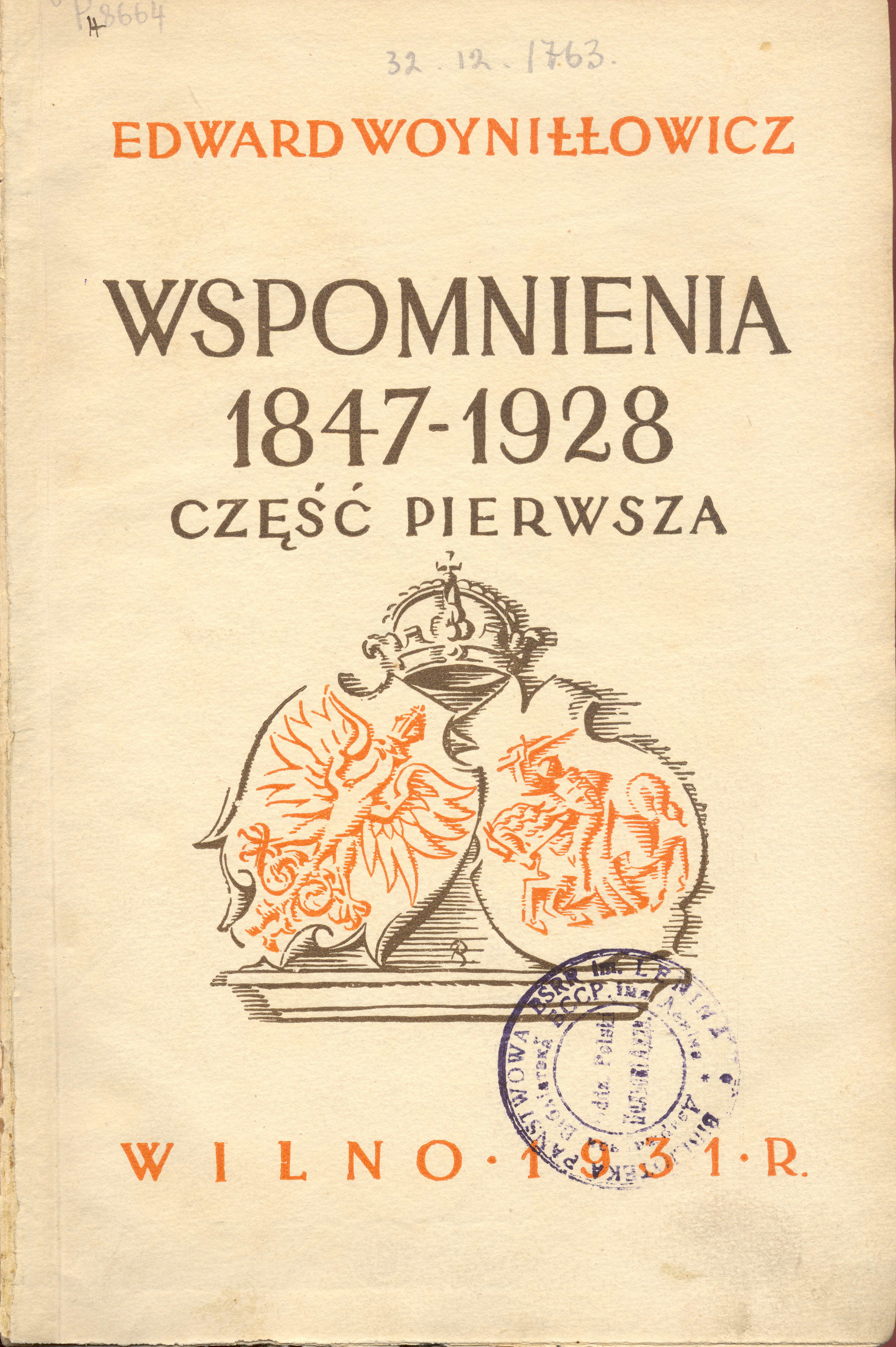 book title page of Edward Woynillowicz's memoirs, 1931 AD